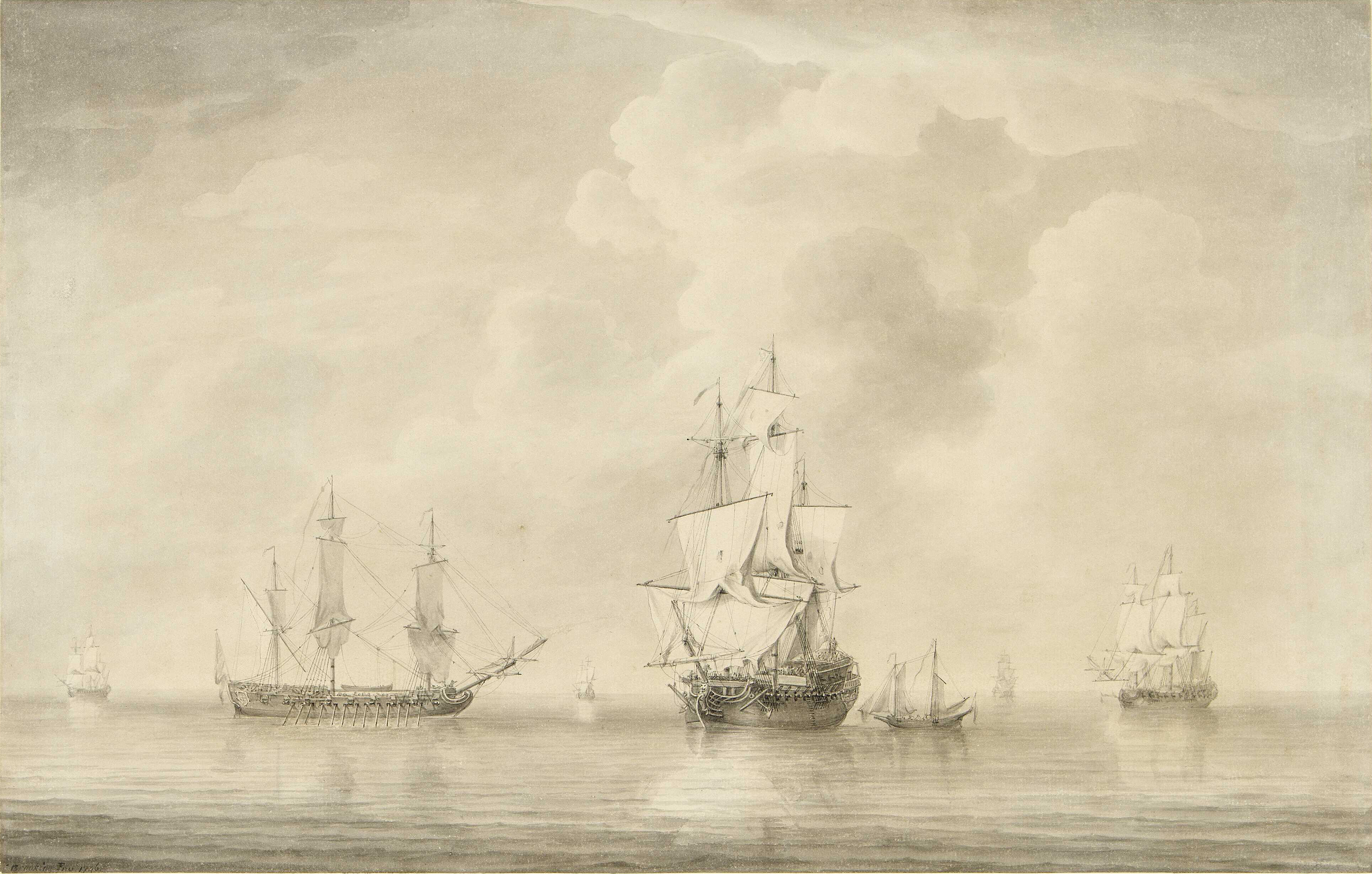 The taking of the 'Nuestra Senora de les Remedios' by the 'Prince Frederick', 'Duke' and 'Prince George' Privateers, 5th February 1746 In 1753 Boydell published a set of engravings illustrating the exploits of the 'Royal Family Privateers', a group of ships named after members of George II's family. They were commanded by George Walker, a famous privateer (the term describes either a privately owned vessel operating against enemy trade in time of war or its commander). This is one of four drawings by Brooking in the Museum's collection made specifically as designs for Boydell's engravings. Also in the Museum's collection is a group of oil paintings by Brooking of the Royal Family. Like the drawings they convey a sense of atmosphere that is typical of Brooking, but unusual in depictions of naval actions. The taking of the 'Nuestra Senora de les Remedios' by the 'Prince Frederick', 'Duke' and 'Prince George' Privateers, 5th February 1746